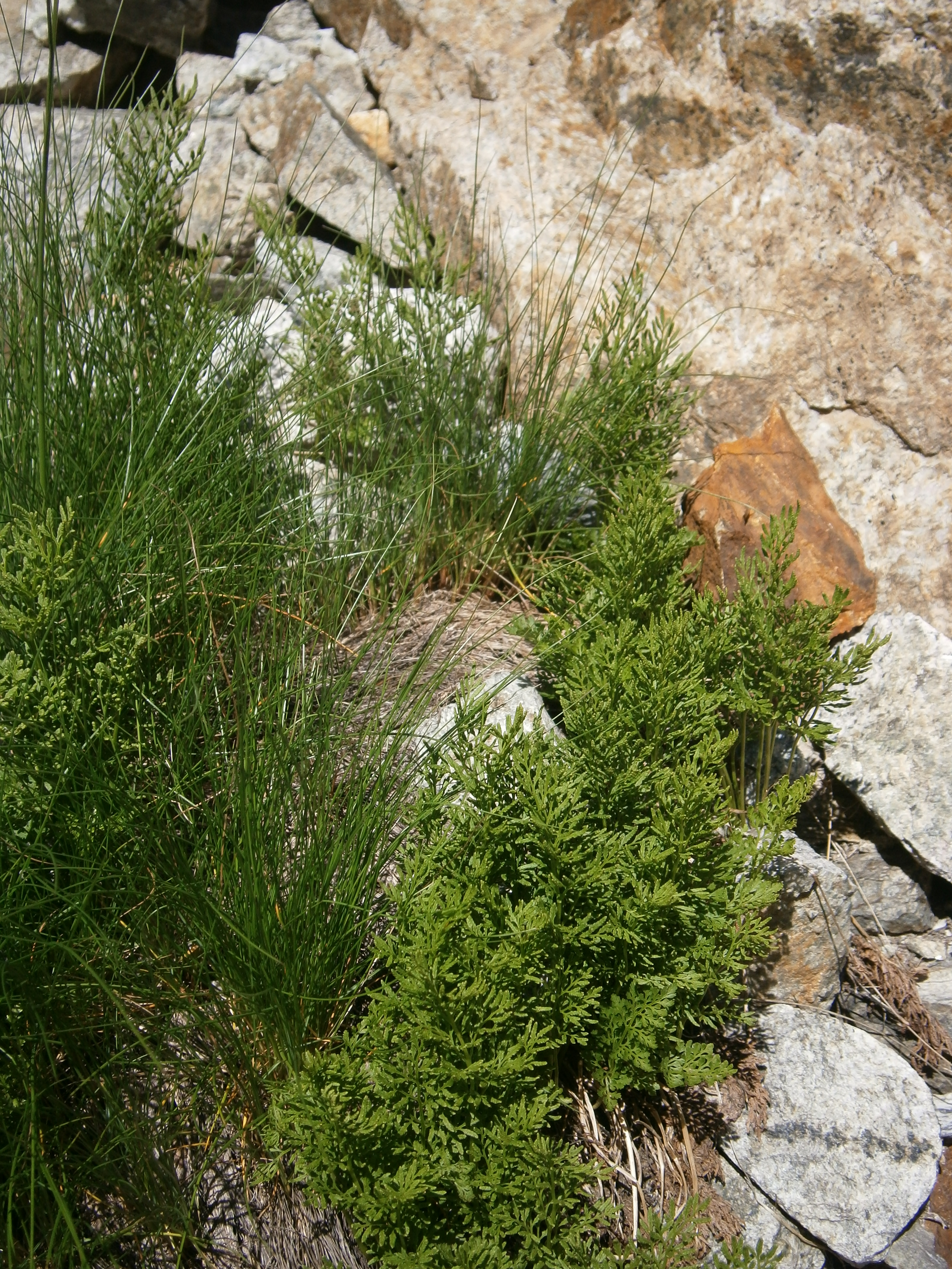 Cryptogramma crispa